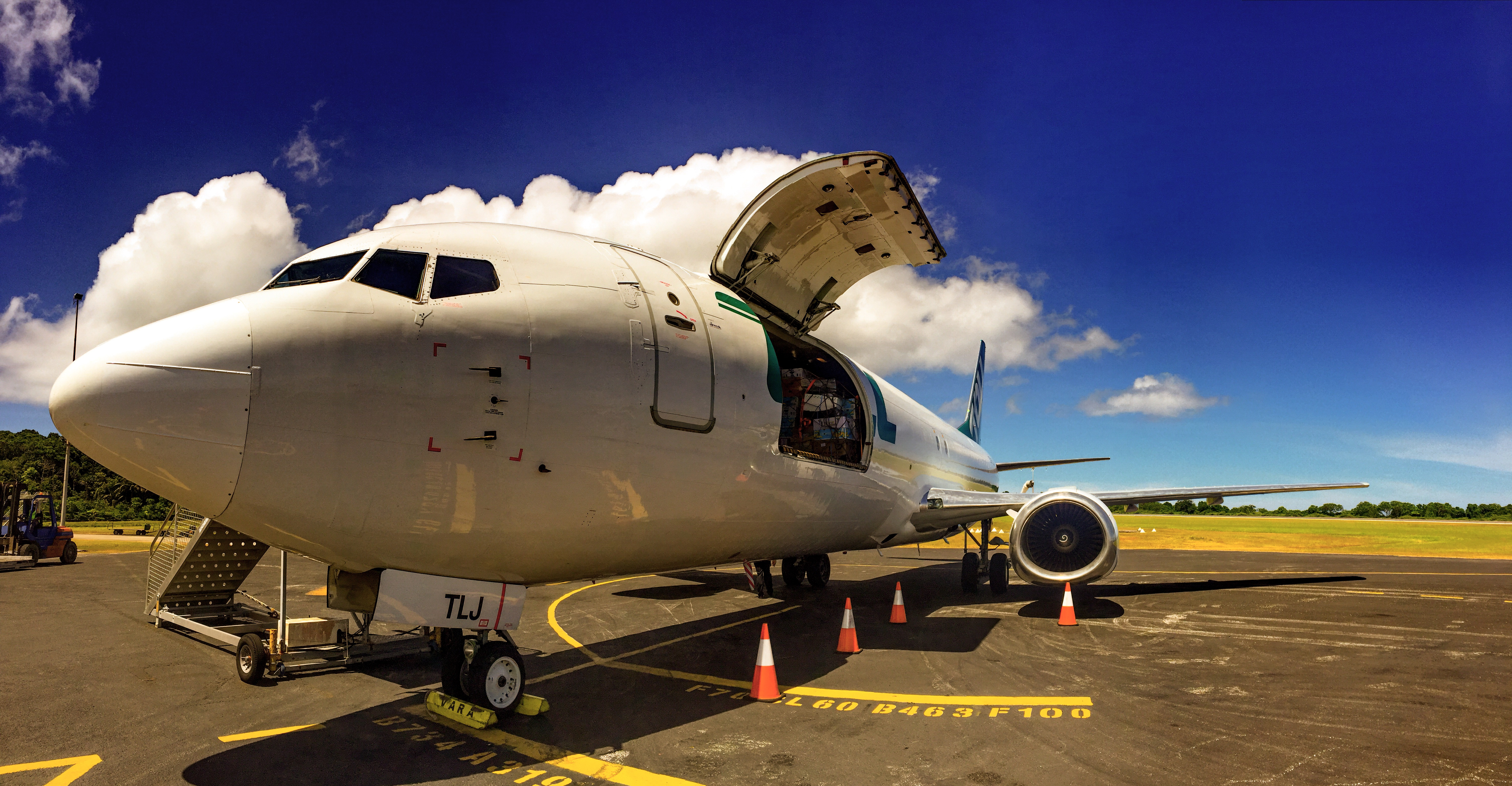 Airwork Boeing 737-400 (ZK-TLJ0), operating for Toll, at Christmas Island Airport